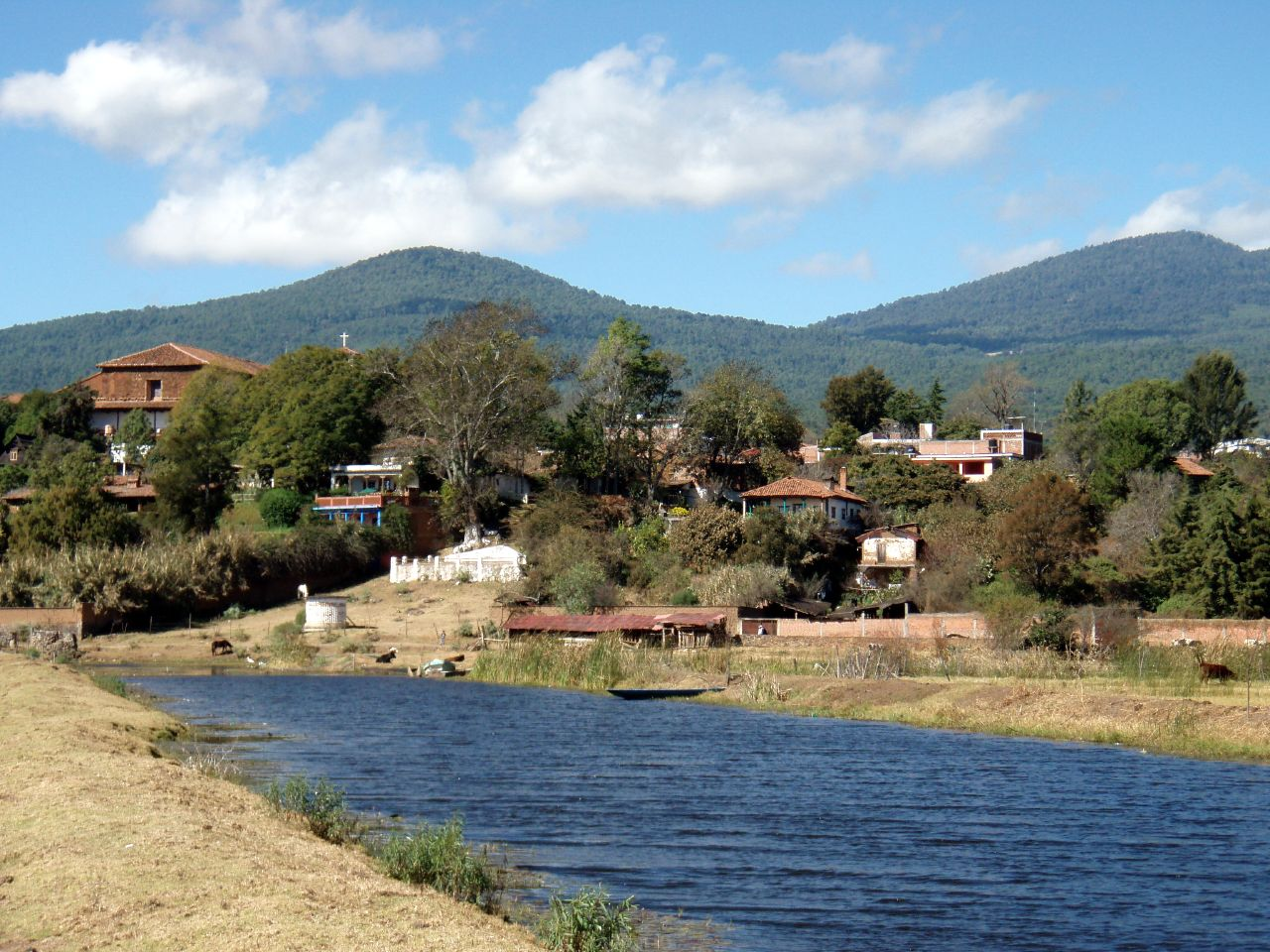 The water front in Eronga. I shot this photo.